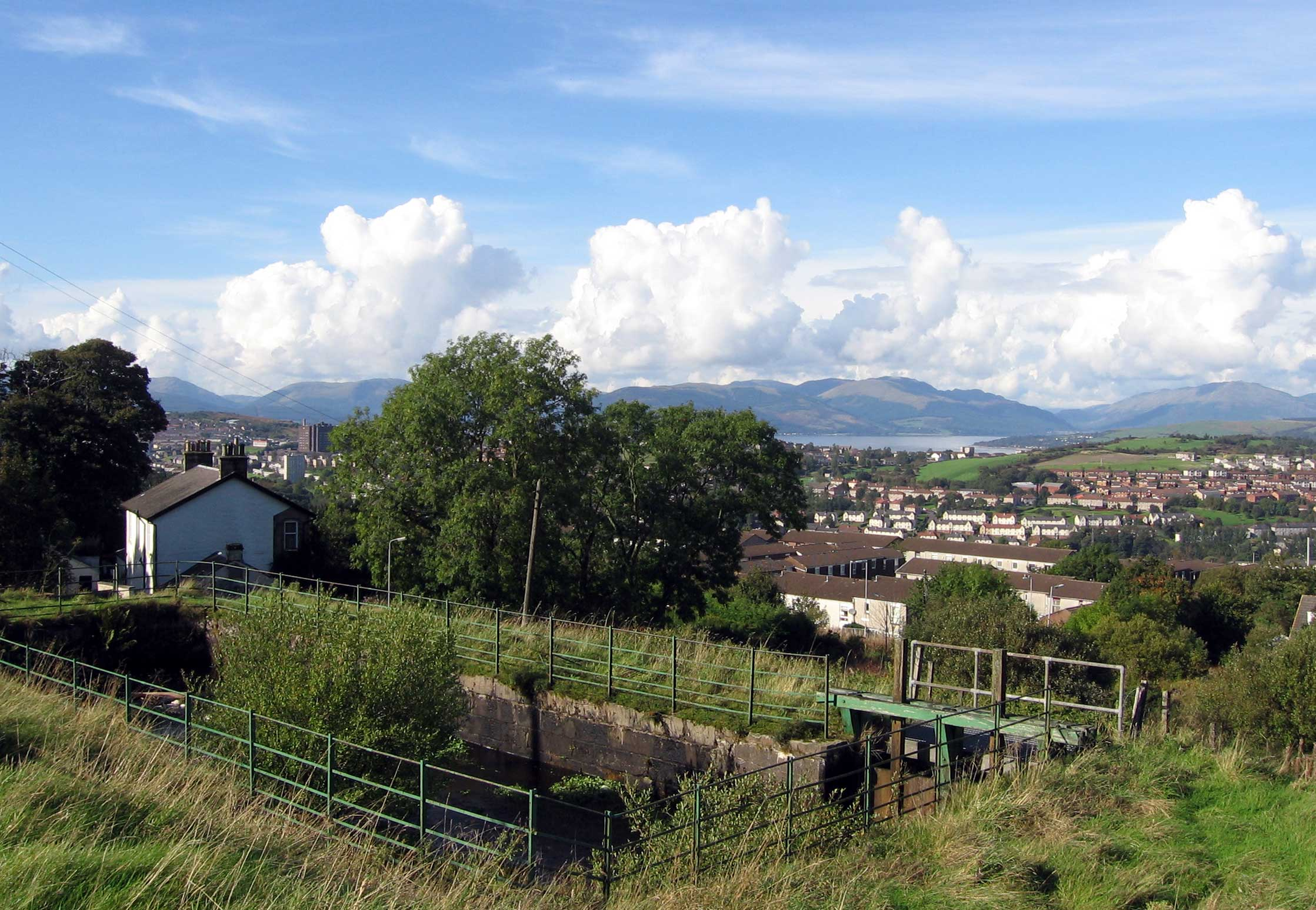 Looking down from the Greenock Cut at Overton over the Shaws Water Works regulating basin and water engineer's house, to the suburbs of the town of Greenock in Scotland, now in the District of Inverclyde.